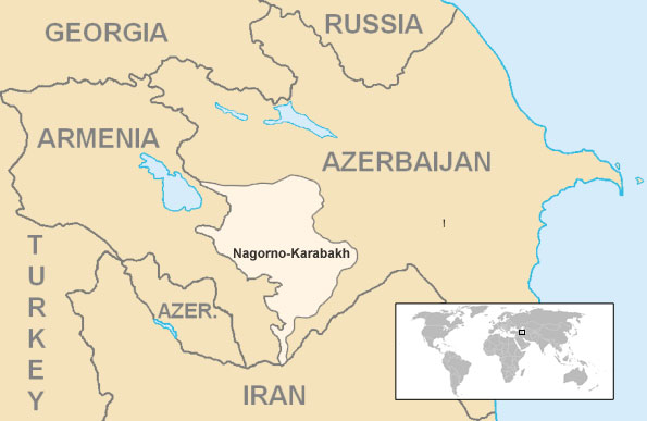 Nagorno-Karabakh georgraphical region